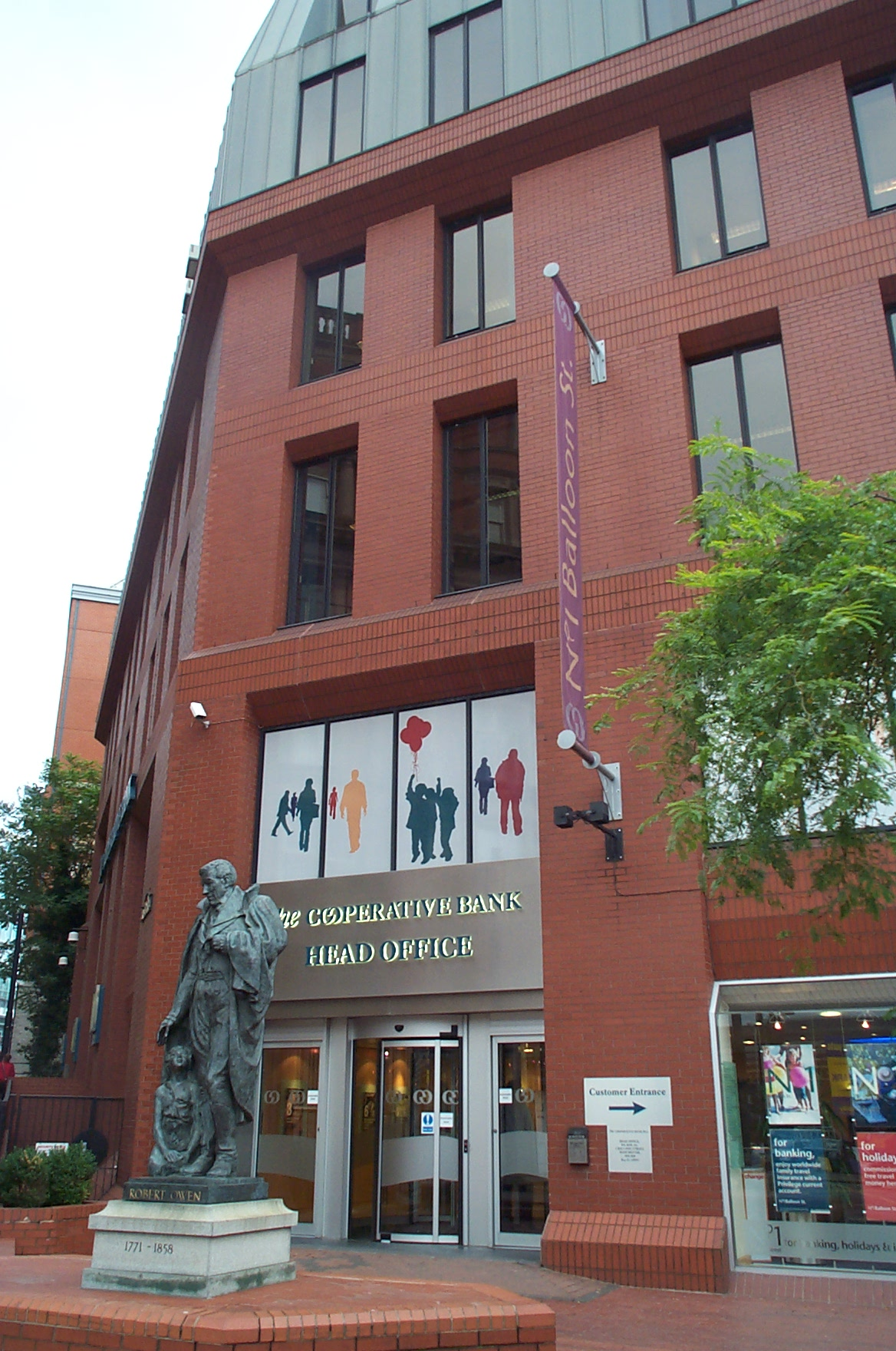 Head Office of the Co-operative Bank, 1 Balloon Street, Manchester, with the statue of Robert Owen in front.